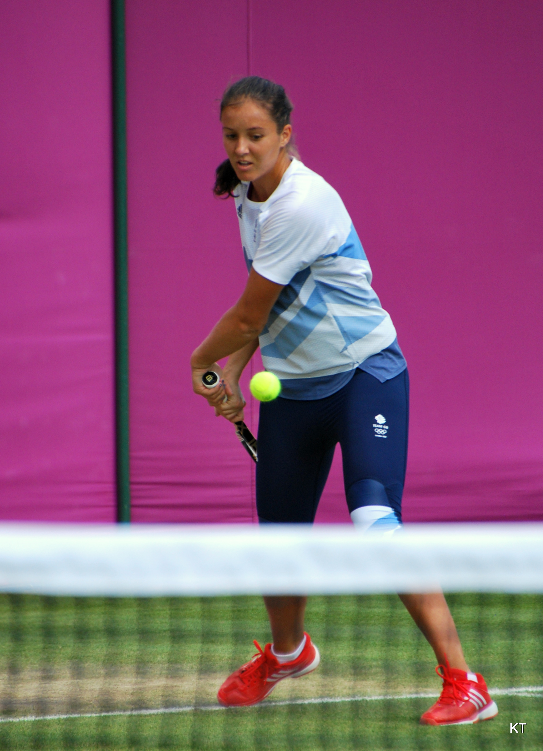 Laura Robson on the practice court ahead of her first match in the 2012 London Olympics at Wimbledon.